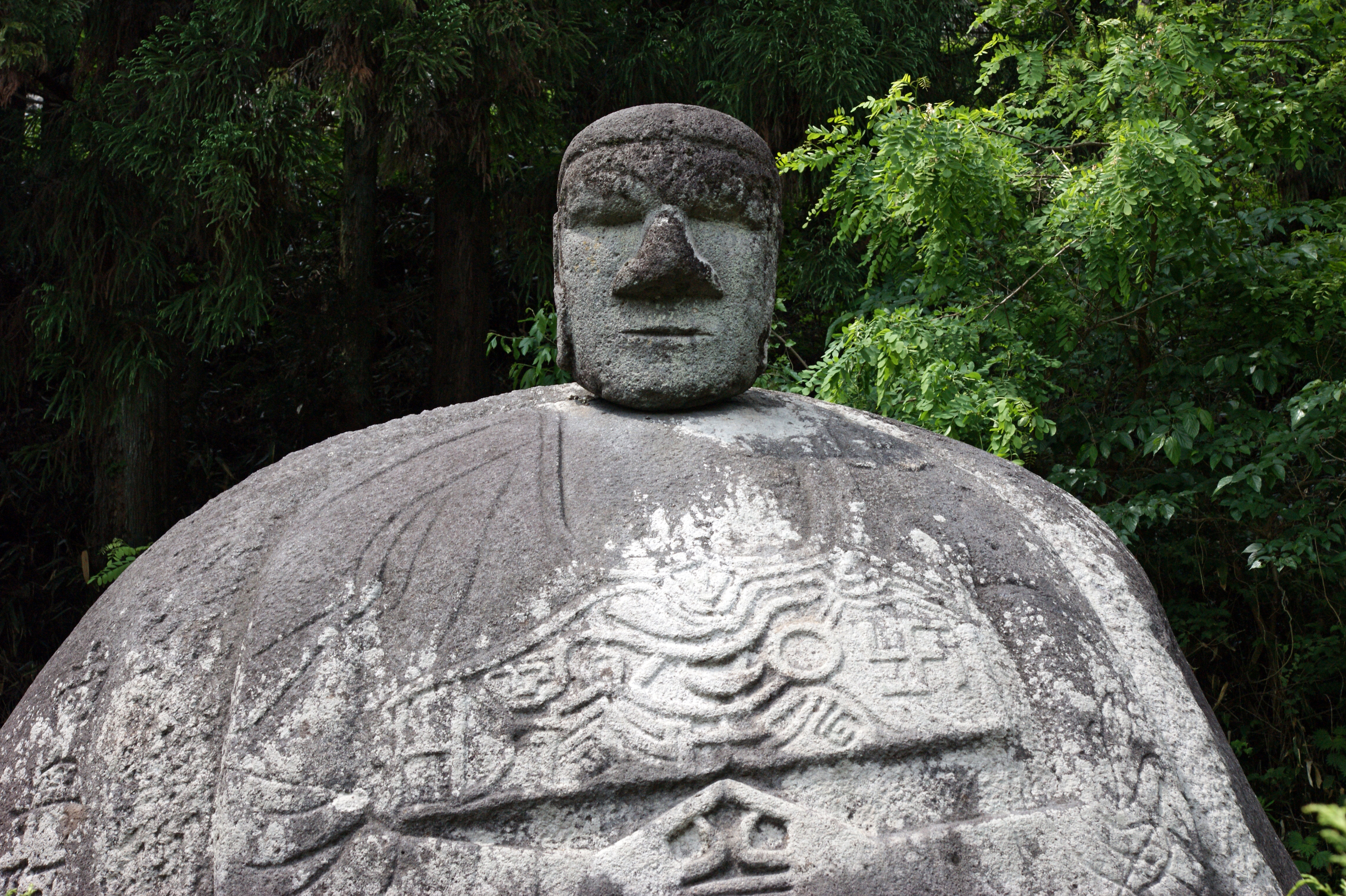 Manji-no-sekibutsu in Shimosuwa, Nagano prefecture, Japan